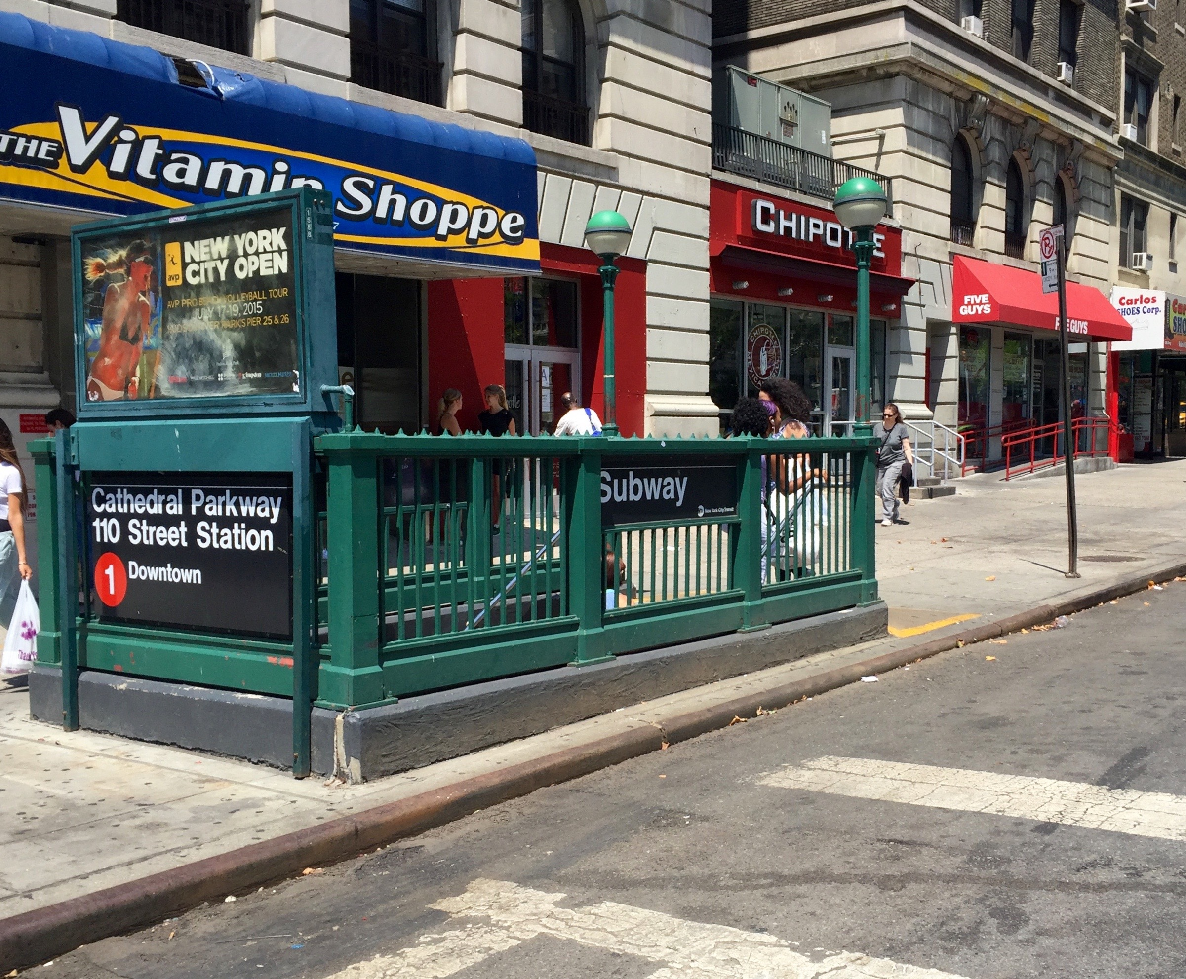 NW stairs at Cathedral Parkway - 110th Street on the 1.